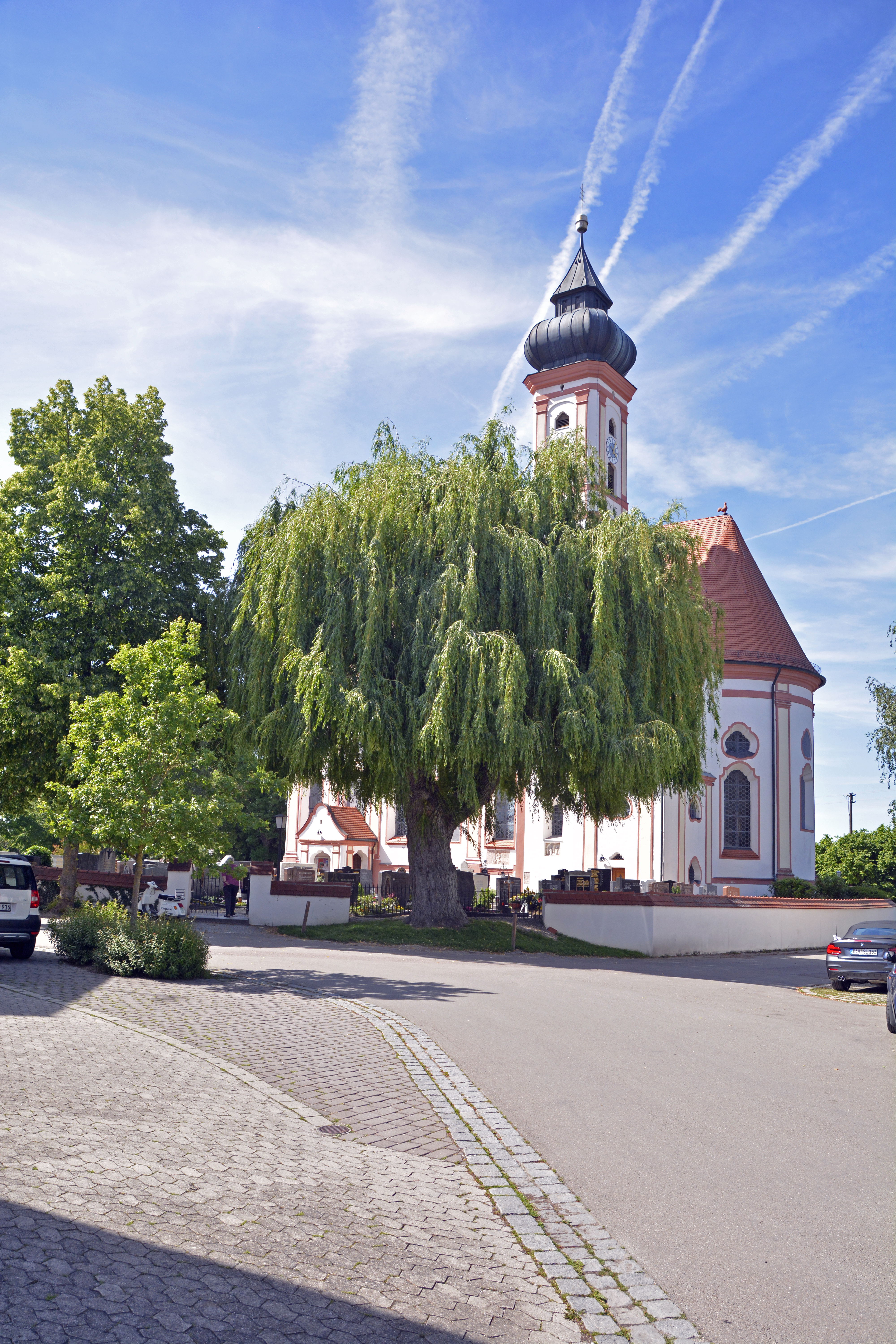 St. Jakobus (Vierkirchen, Upper Bavaria)(view from south east)